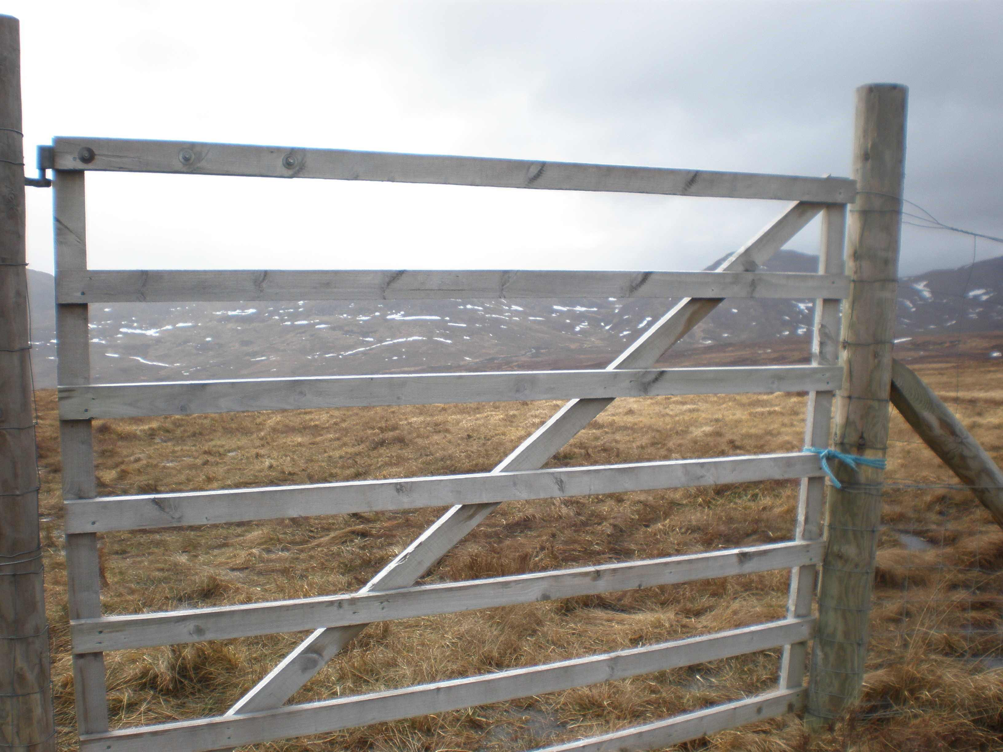 Gate on deer fencing on Meall na Faiche Just need one on other side of plantation to get out again.